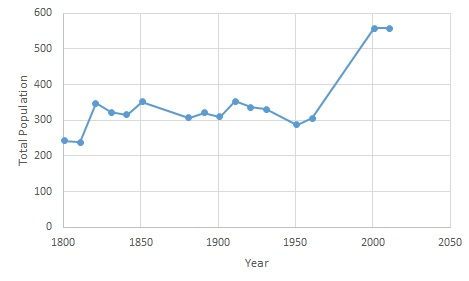 Total population of Langdon Civil Parish, Kent, as reported by the Census of Population from 1801-2011.